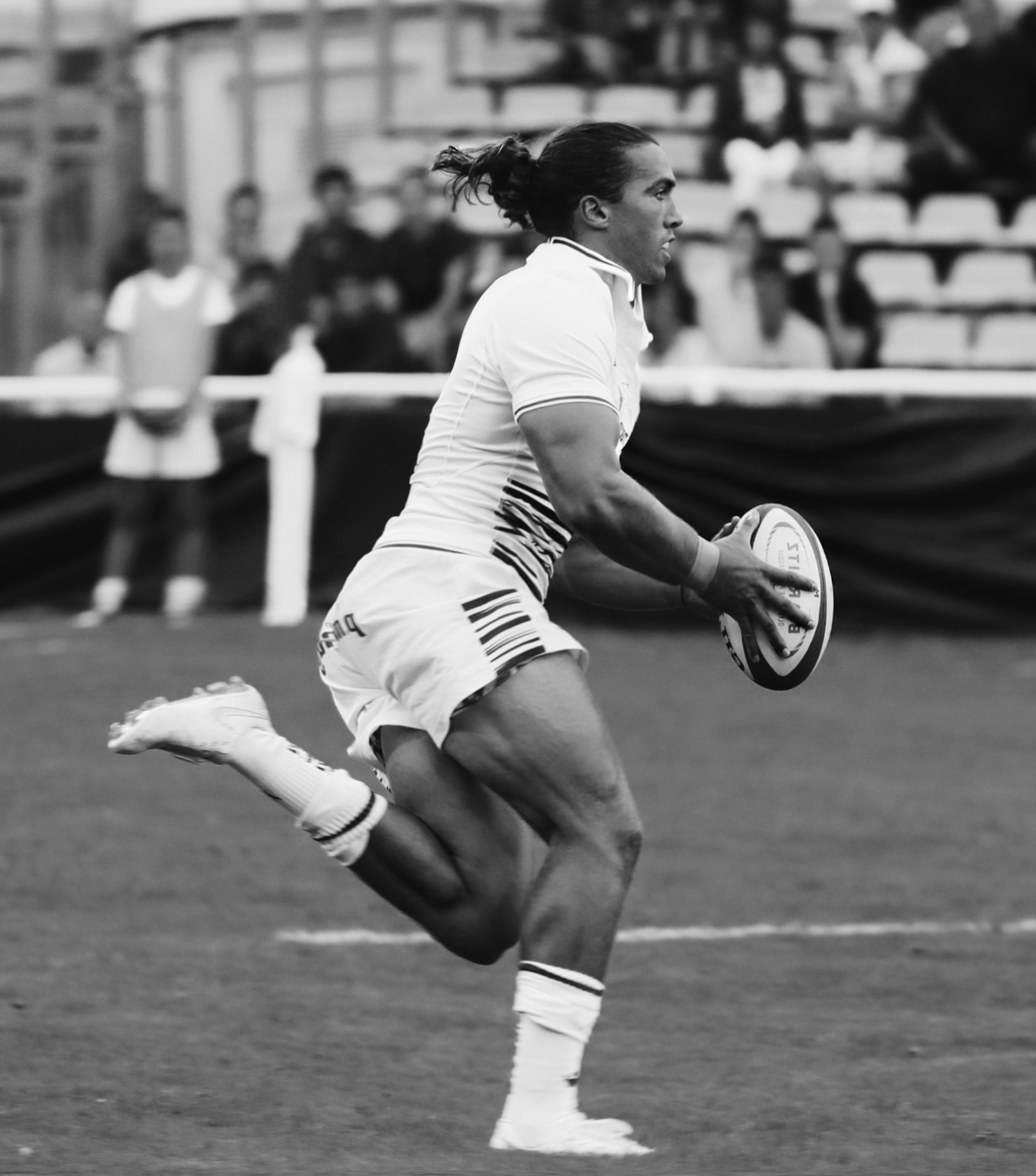 Luke Burton